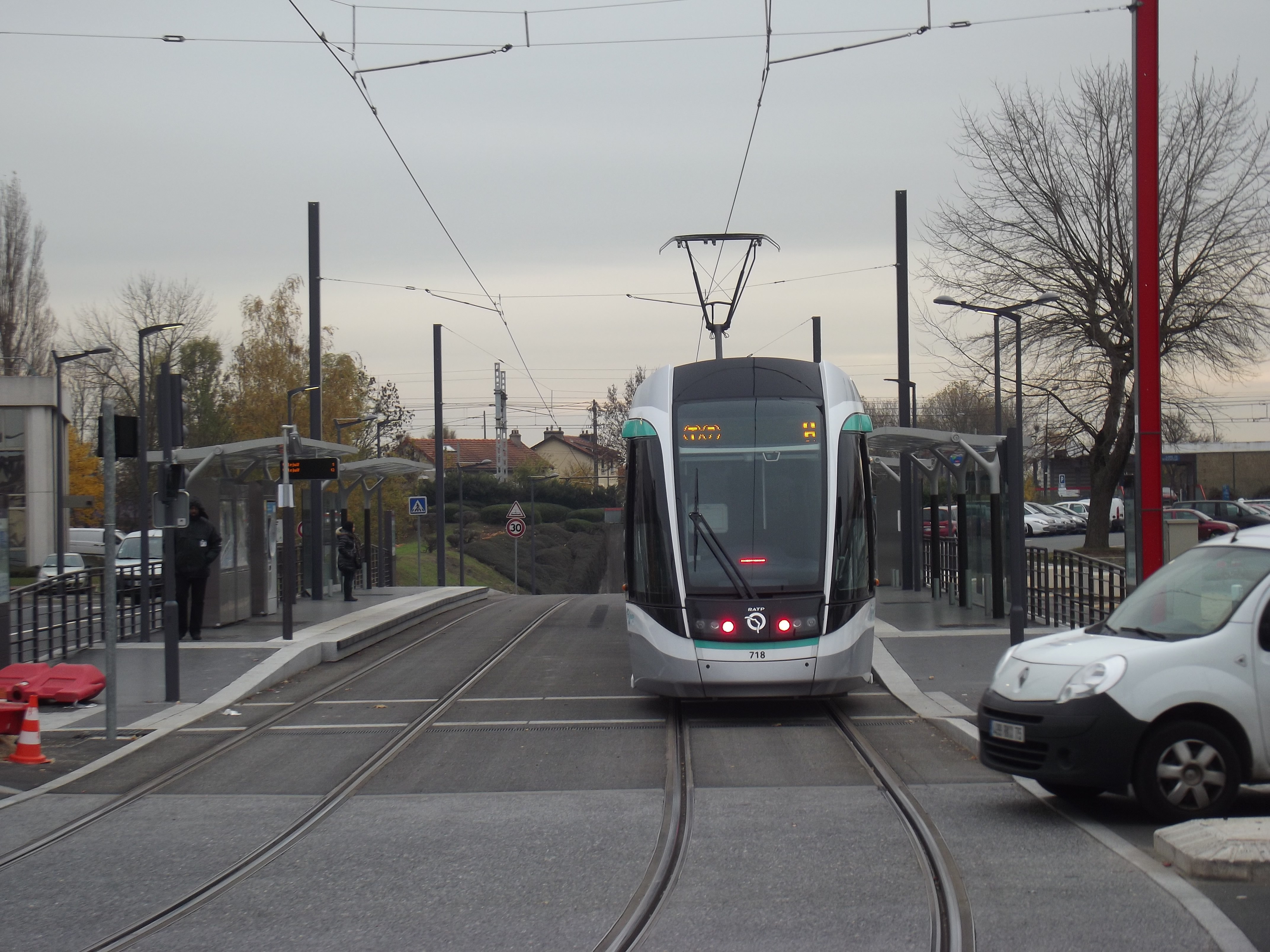 T7 tramline stop La Fraternelle